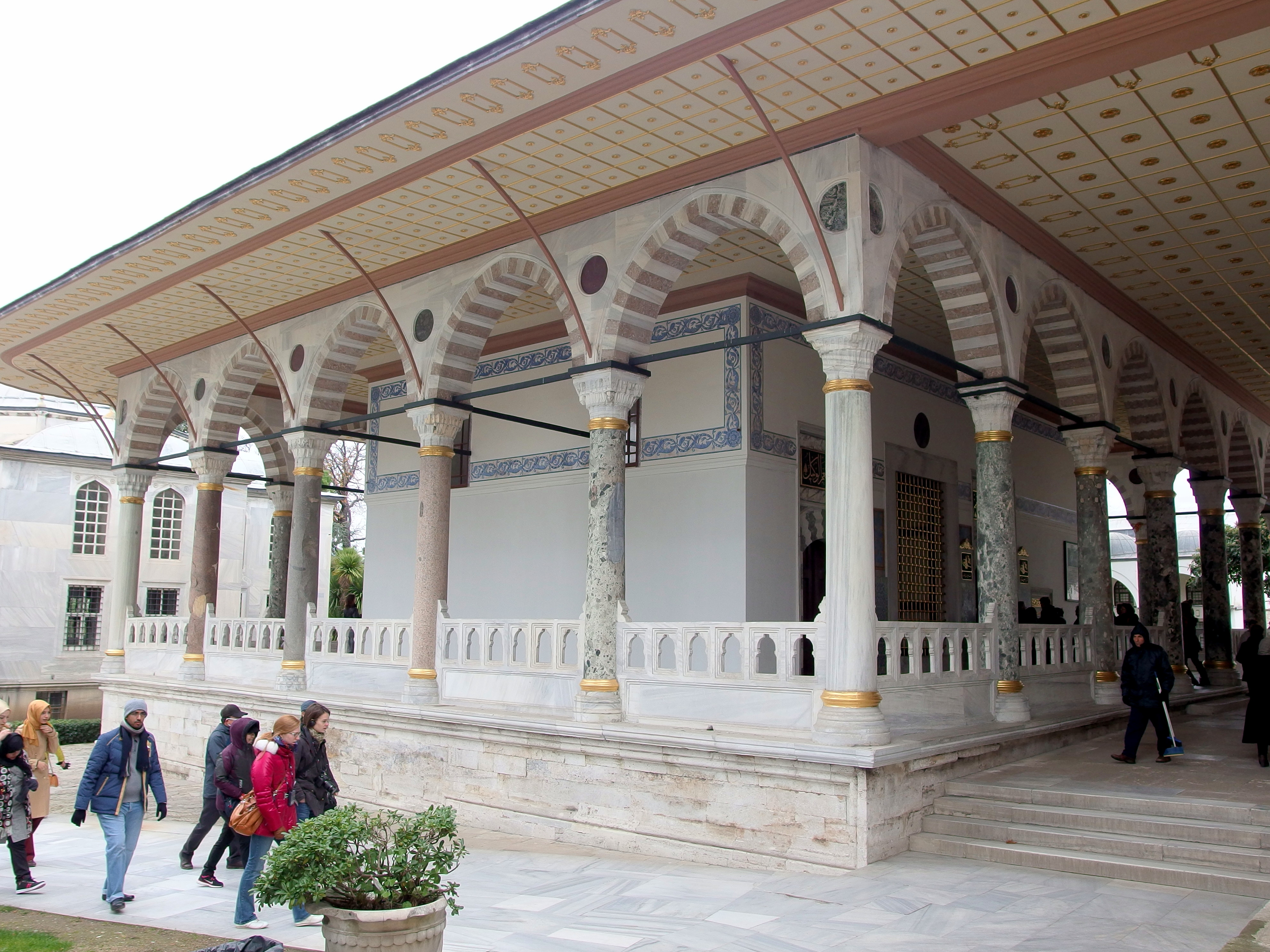 2013-12-04 in Istanbul.